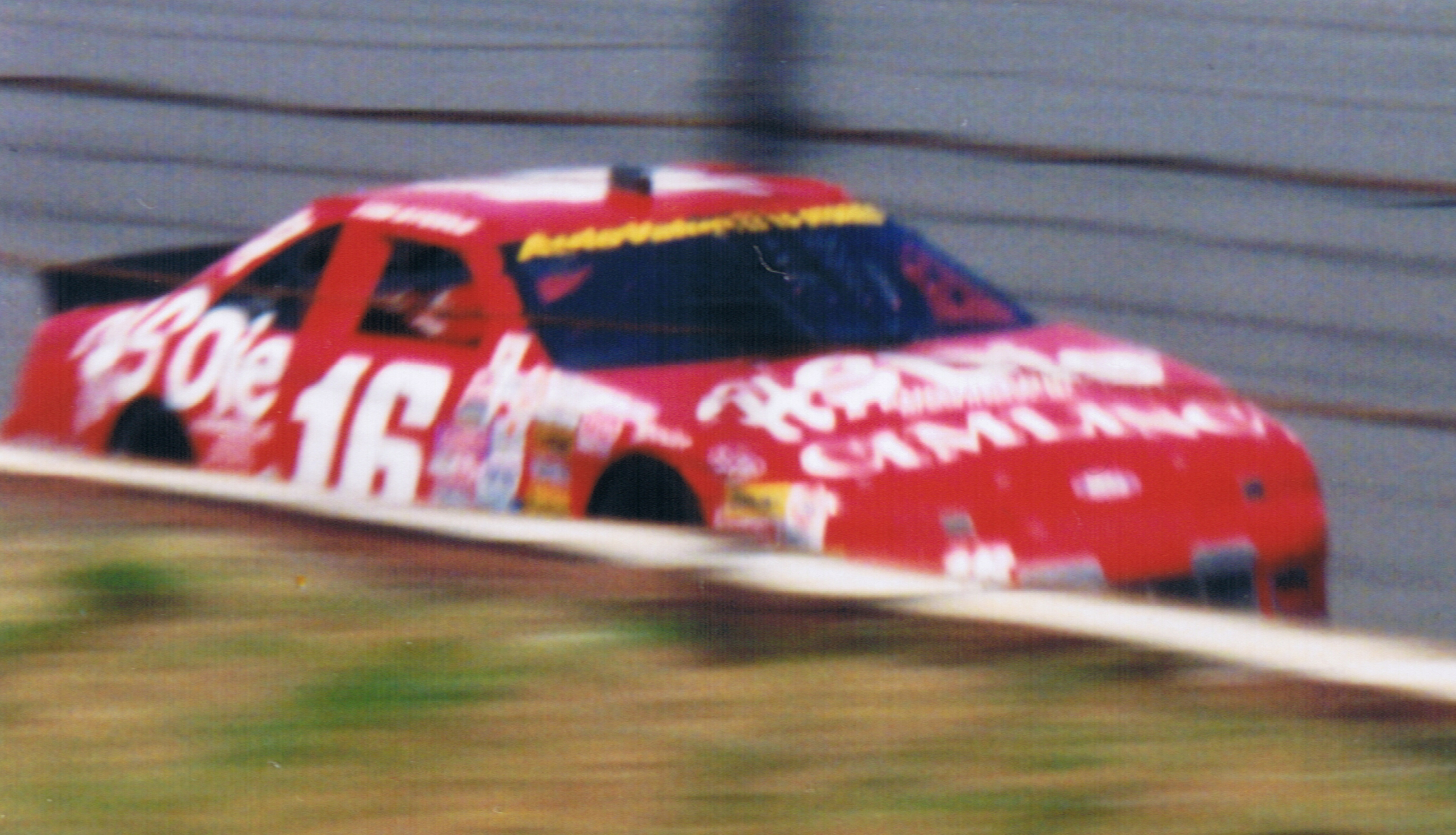 ARCA Champion Tim Steele on the front stretch for the June ARCA race at Pocono Raceway 1996